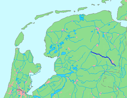 Location of a waterway (river/canal) in the Netherlends